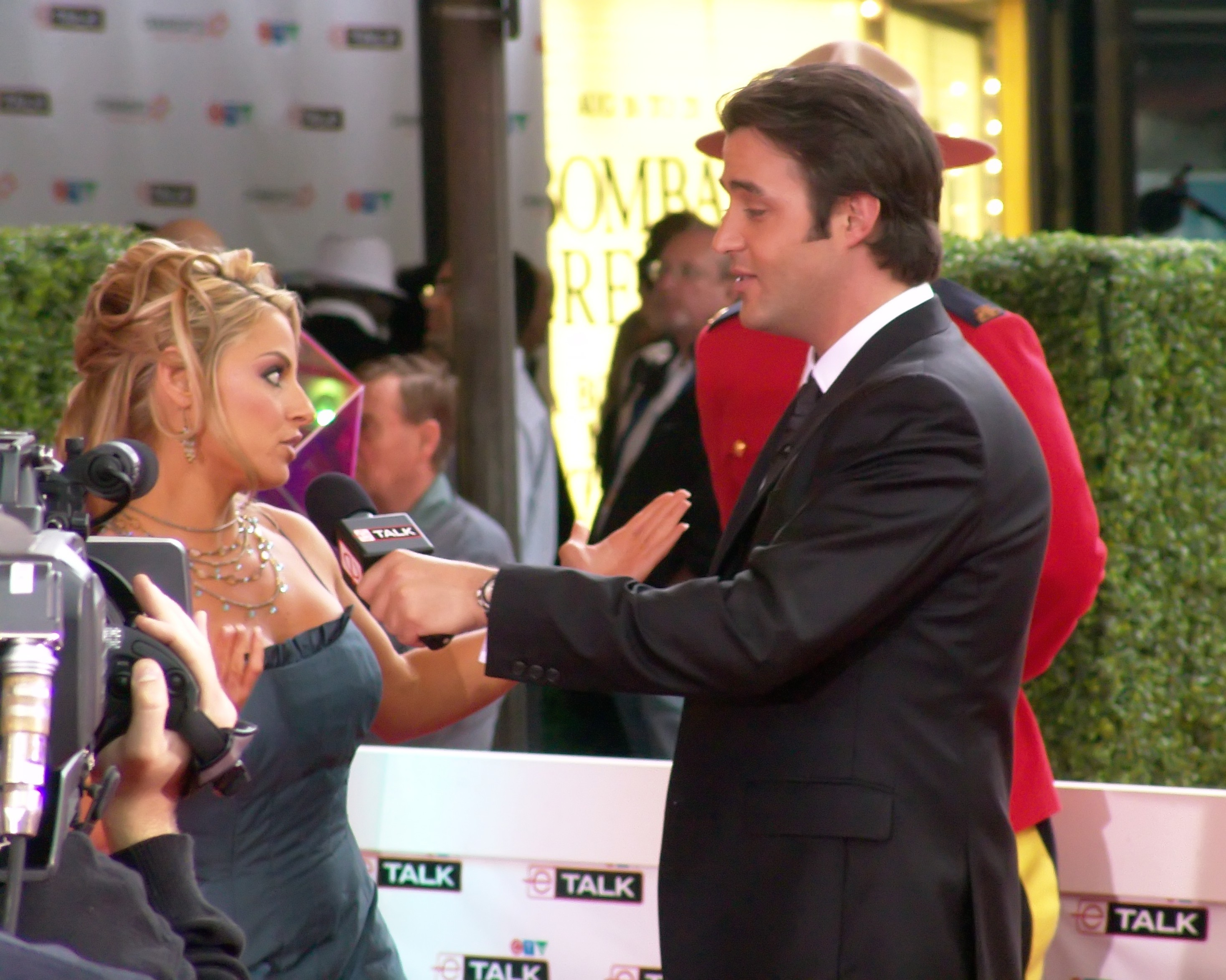 Trish Stratus & Ben MulroneyDSC00053